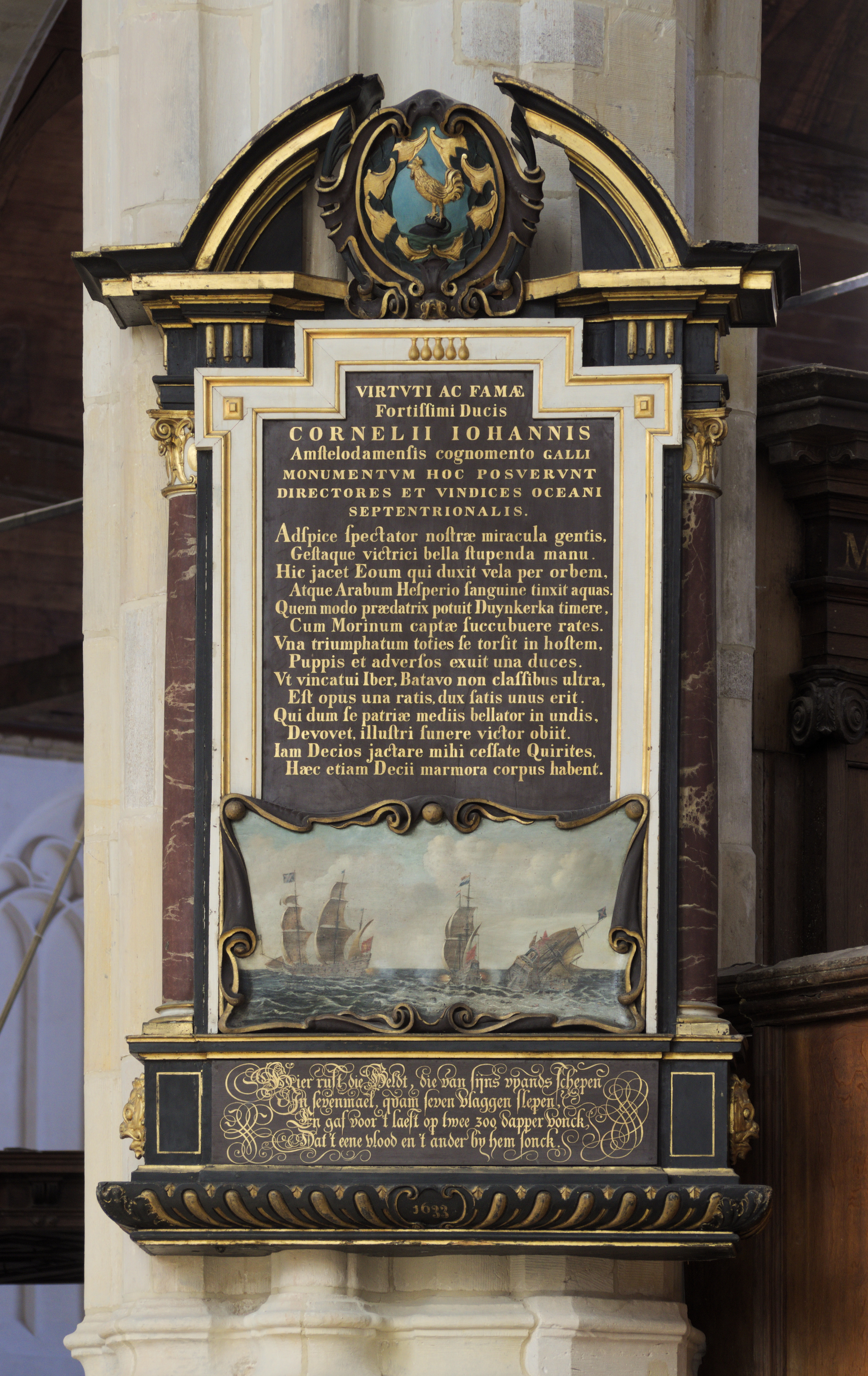 The memorial dedicated to Cornelis Janszoon de Haen, within Oude Kerk.